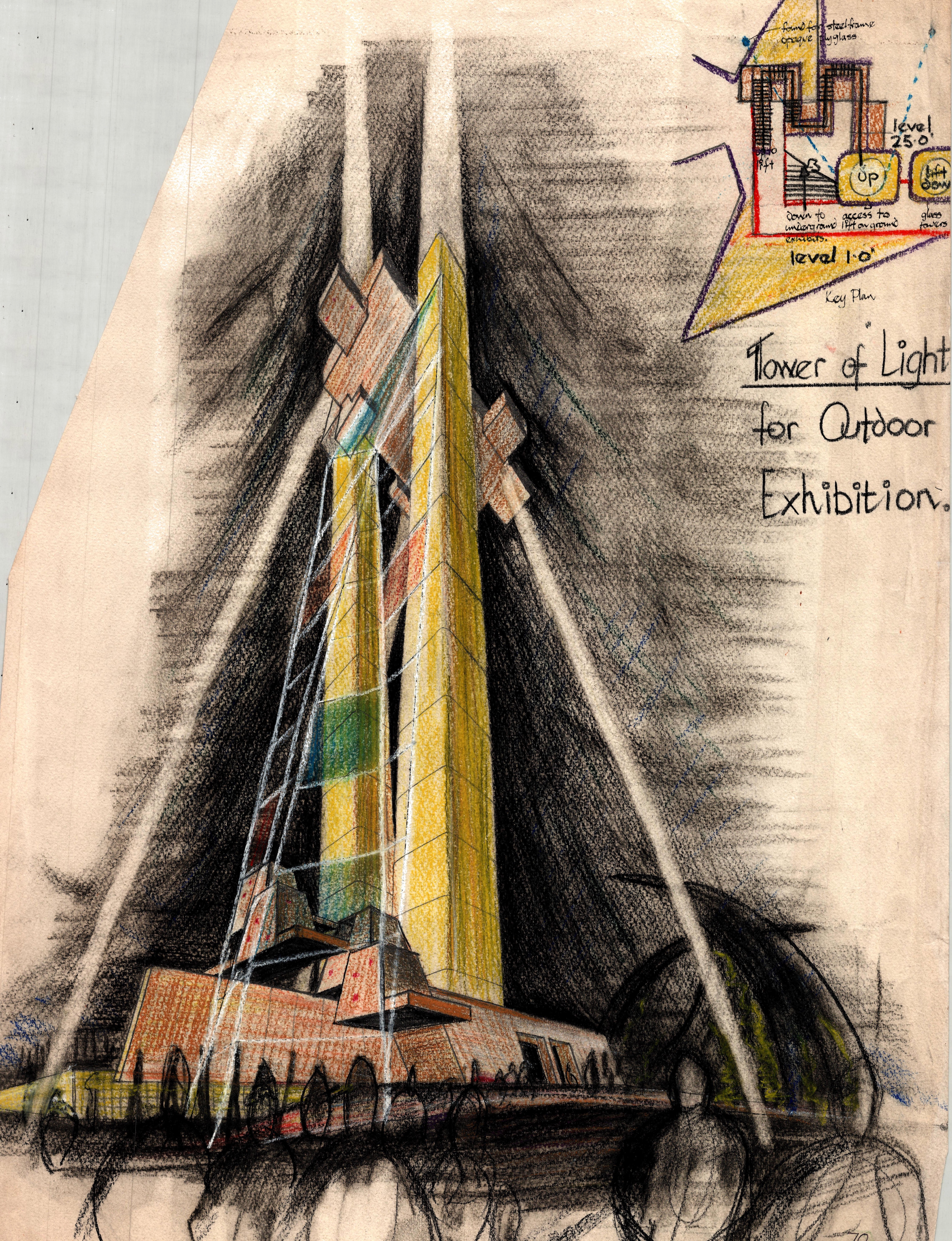 Sequential images for Douglas Jarvie Clelland Wikipedia article